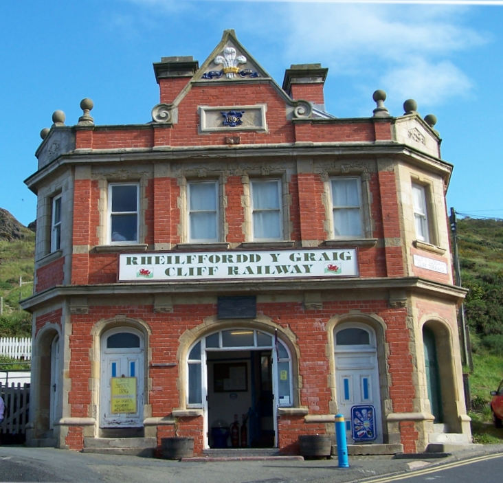 Aberystwyth Cliff Railway (Welsh: Rheilffordd y Graig) is a funicular railway in Aberystwyth, Wales, opened in 1896. Photo by Darren Wyn Rees at Aberdare Blog